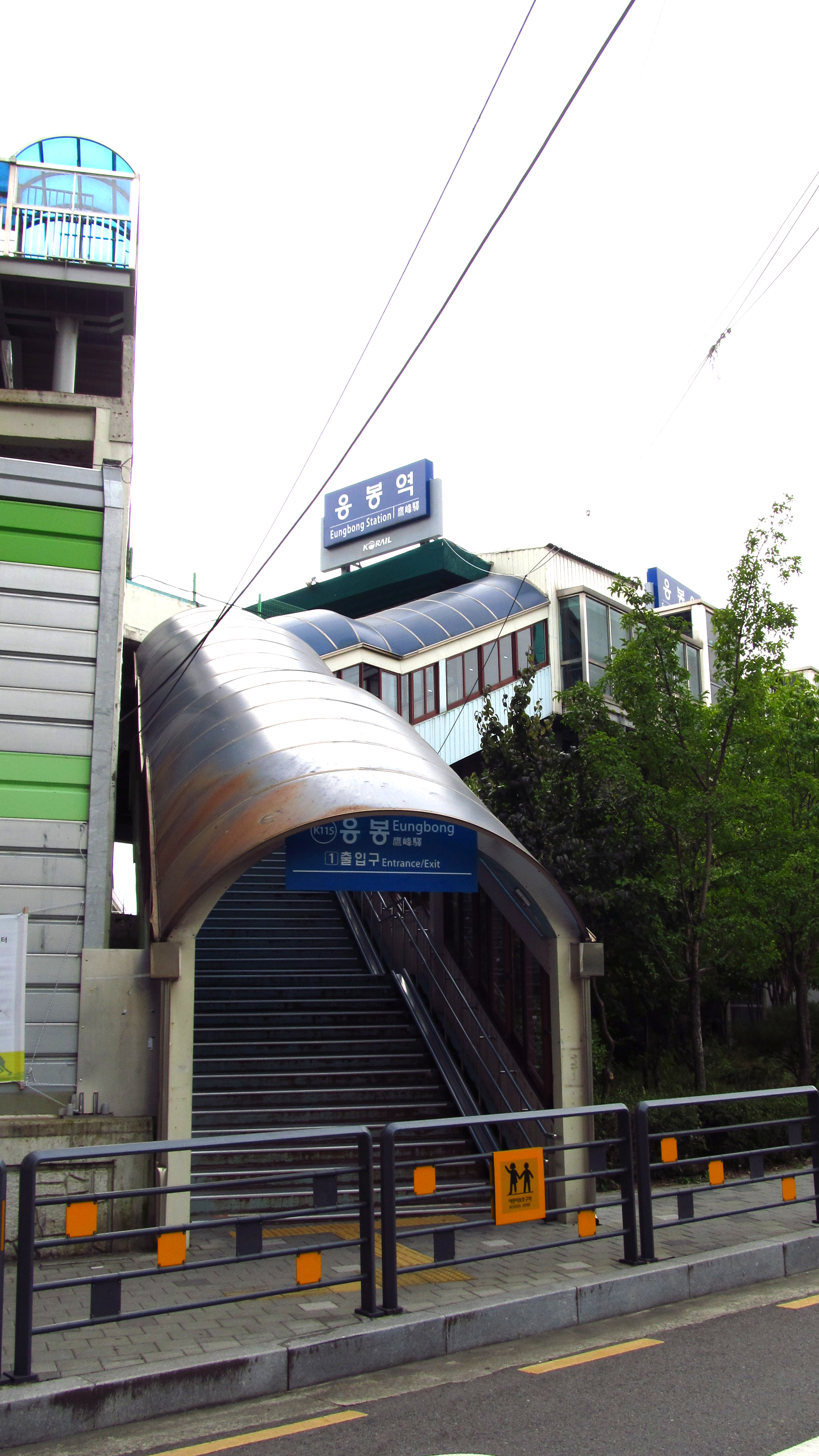 The no.1 entrance to Eungbong Station on the Gyeongui-Jungang Line in Seongdong-gu, Seoul, Republic of Korea(South Korea)